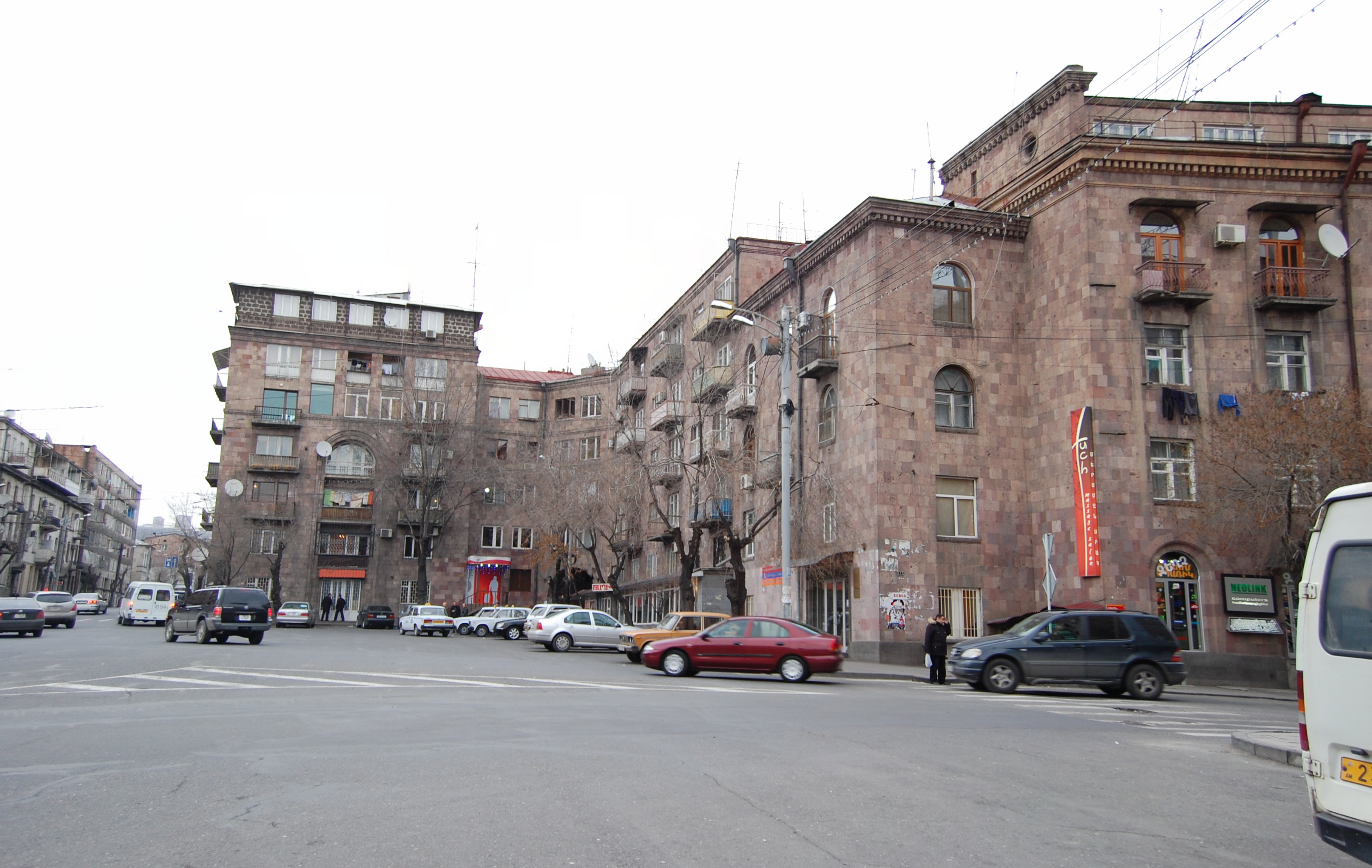 Old Soviet-style apartment building in Sakharov Square, Yerevan, Armenia